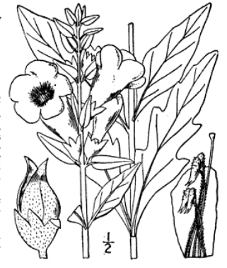 Botanical illustration of Dasystoma flava (1913). This was published prior to when Dasystoma flava was renamed Aureolaria virginica, and Dasystoma virginica was renamed Aureolaria flava by Francis Pennell, because he discovered that the fuzzy species originally named Rhinanthus virginicus in 1753 by Carl Linnaeus had been mistakenly confused by 19th century botanists with the smooth species originally named Gerardia flava in 1753 by Carl Linnaeus. Pennell explains how this occurred very clearly in "The Scrophulariaceae of Eastern Temperate North America" (1935). The Academy of Natural Sciences, Philadelphia, PA., which is also available as a Google eBook, although not yet in the public domain. Botanical naming conventions dictate that Pennell was correct in switching the species epithets back, and there have not been any more recent changes made to the names of these two species. Unfortunately, some resources, particularly those functioning as aggregators of large quantities of information, including materials which may be out of date, have perpetuated this confusion, such as this botanical illustration of Dasystoma flava being labeled as Aureolaria flava on the USDA website, and later uploaded to Wikipedia. This illustration could pass as either species, whereas the illustration of Dasystoma virginica which was labeled as Aureolaria virginica, resembles neither.